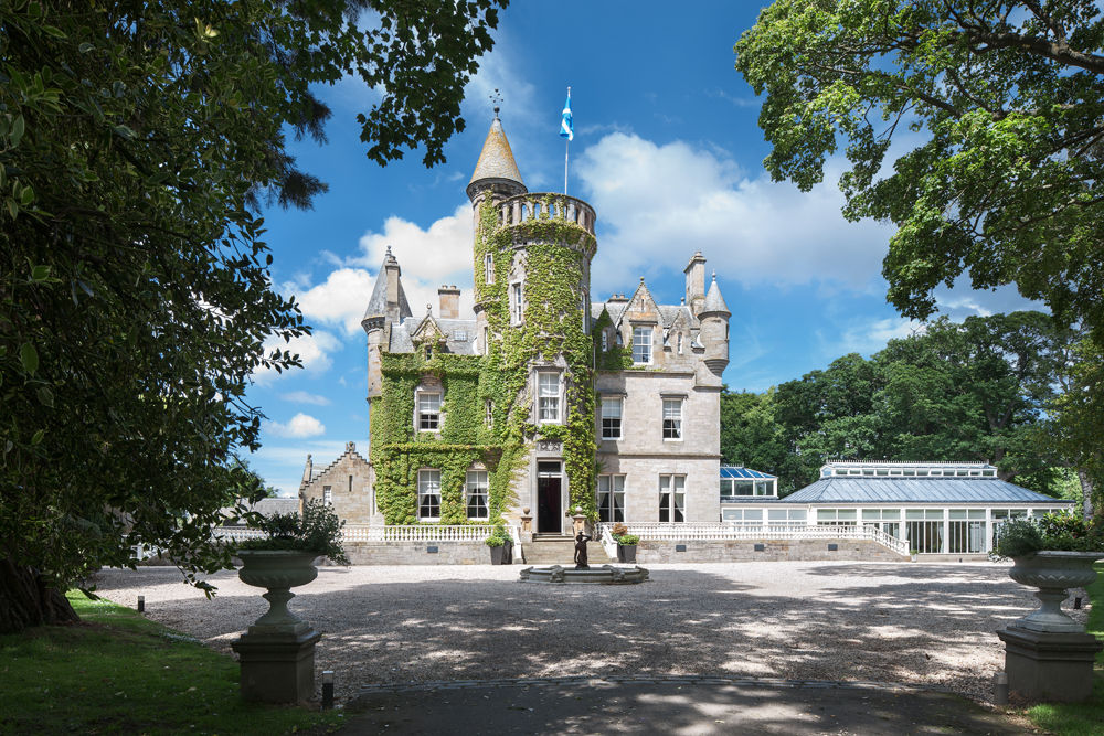 Entrance to Carlowrie Castle